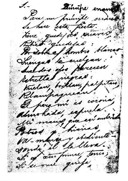 Poema Principa Enano